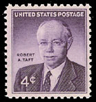 US stamp honoring Robert A. Taft